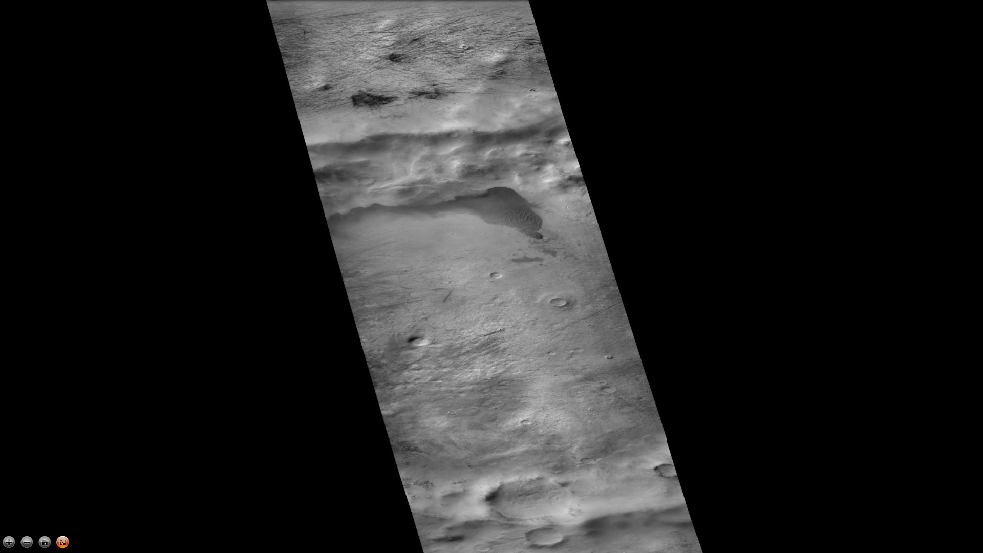 Fontana Crater, as seen by CTX